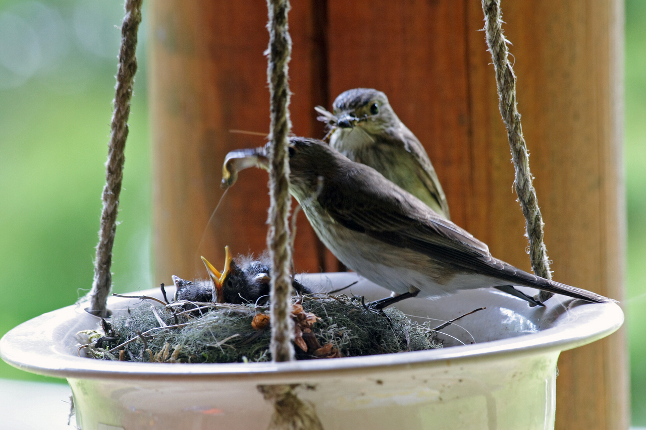 Spotted Flycatchers (Muscicapa striata) nesting in an old flower pot. True five-star service: one parent brings in new food while the other takes care of the excrement.